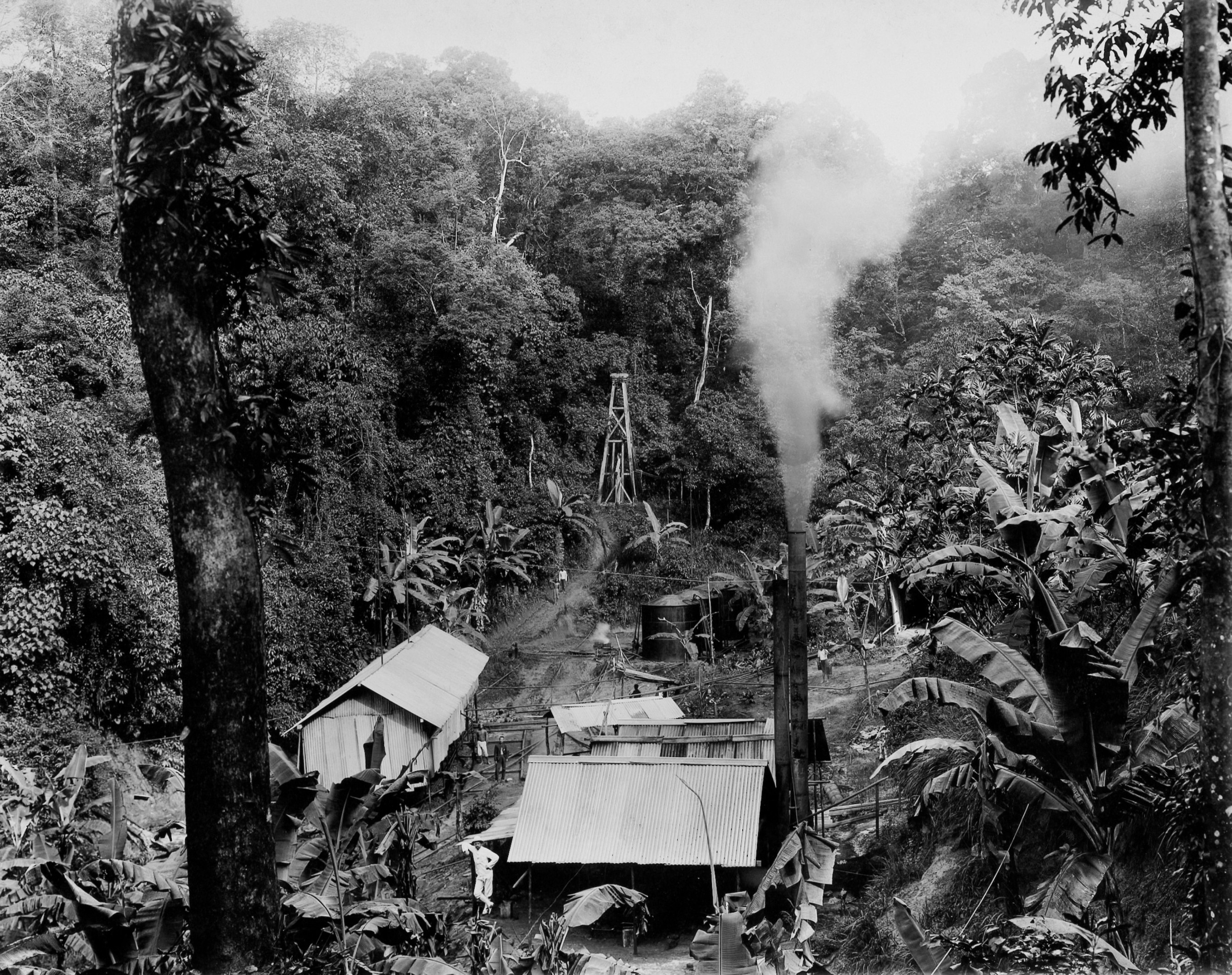 A pumping station of the Dortsche Petroleum Company from Adriaan Stoop in the jungle at Ledok, concession Panolan, Rembang residence, East Java, Indonesia (formerly Dutch East Indies), about 1900.